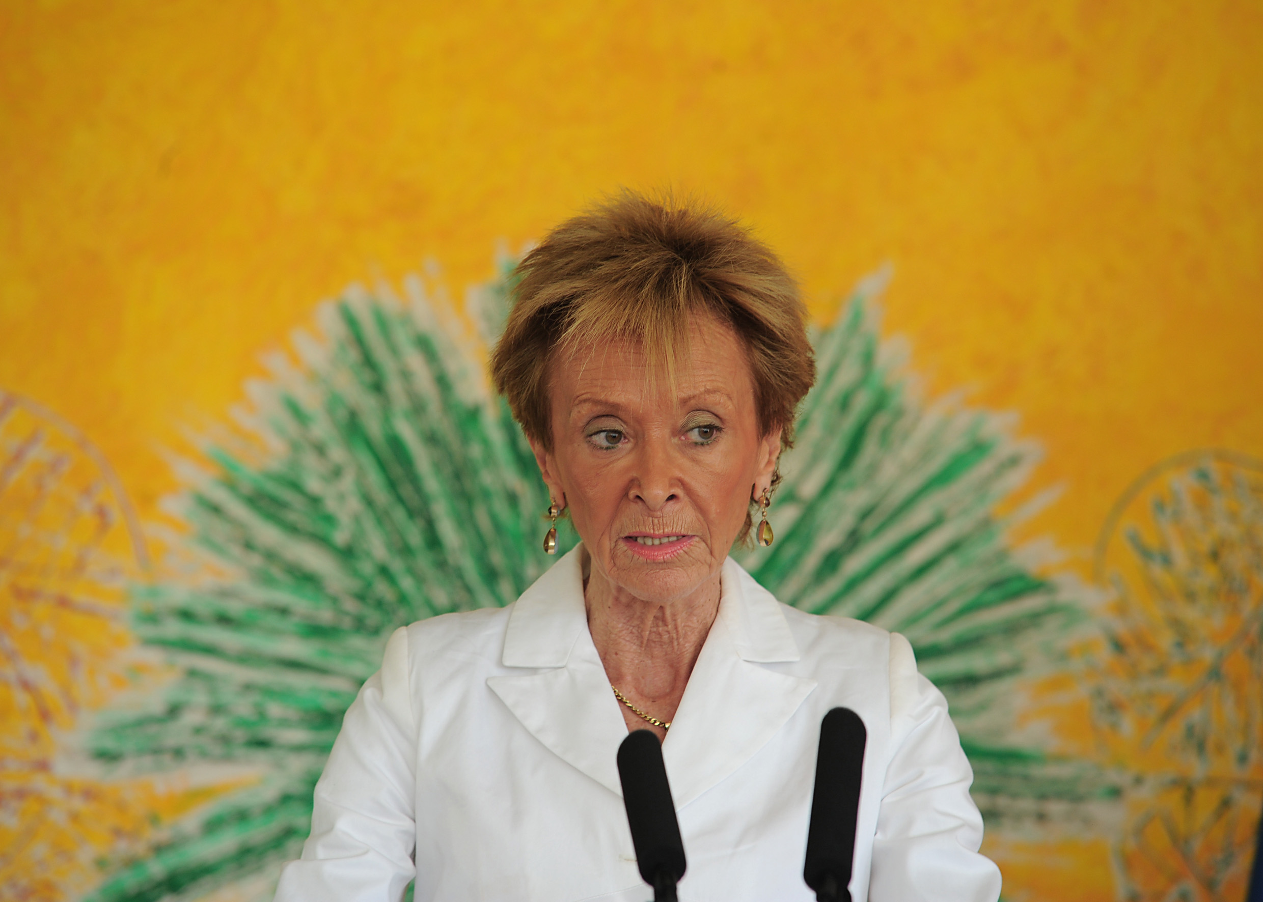 Brasilia - Spanish vice-Premier María Teresa Fernández de la Vega during a press conference at the Spanish Embassy.